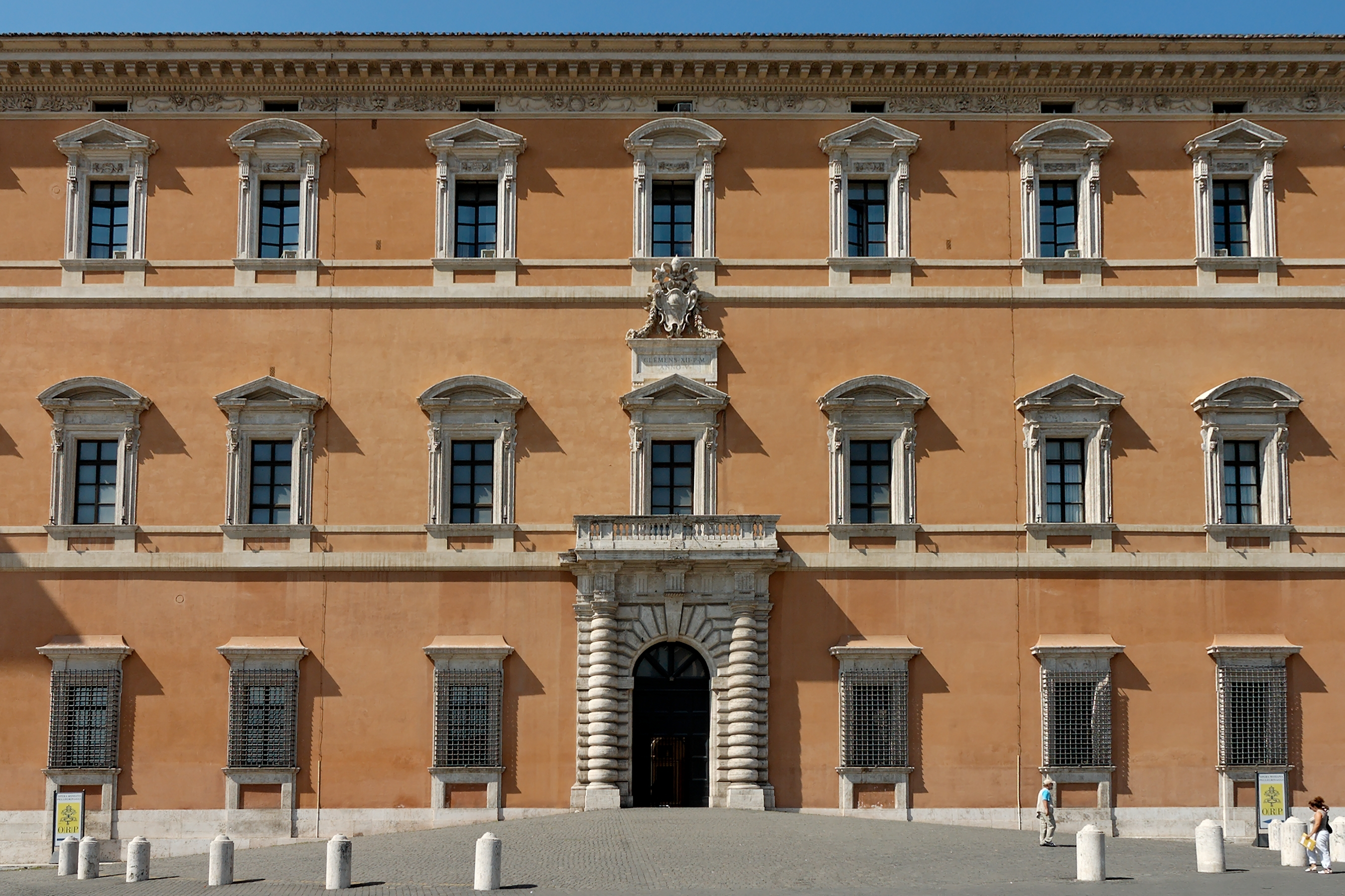 Western façade of the Lateran Palace, Rome.